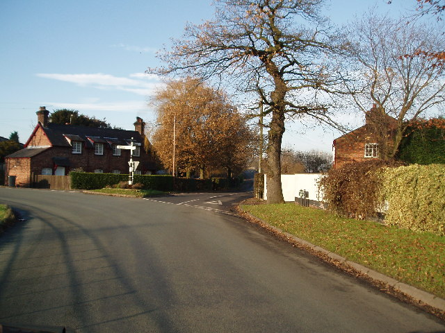 Castle Mill Lane Taken on Castle Mill Lane,looking NW. The lane actually continues to the right and crosses the M56,to the left is Tanyard Lane